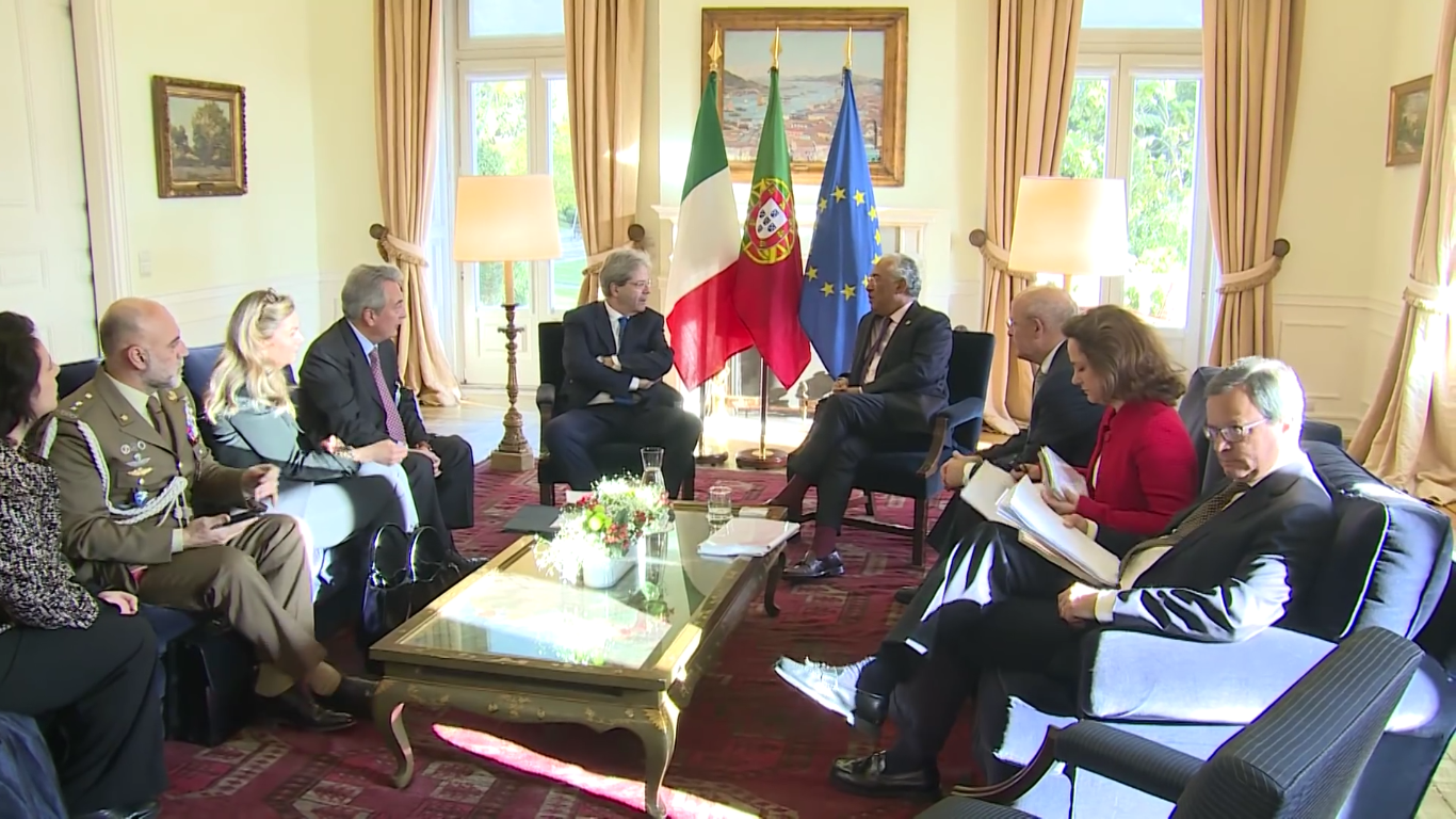 Paolo Gentiloni, Prime Minister of Italy, is received by the Portuguese Prime Minister António Costa, at St. Benedict's Palace, in Lisbon.